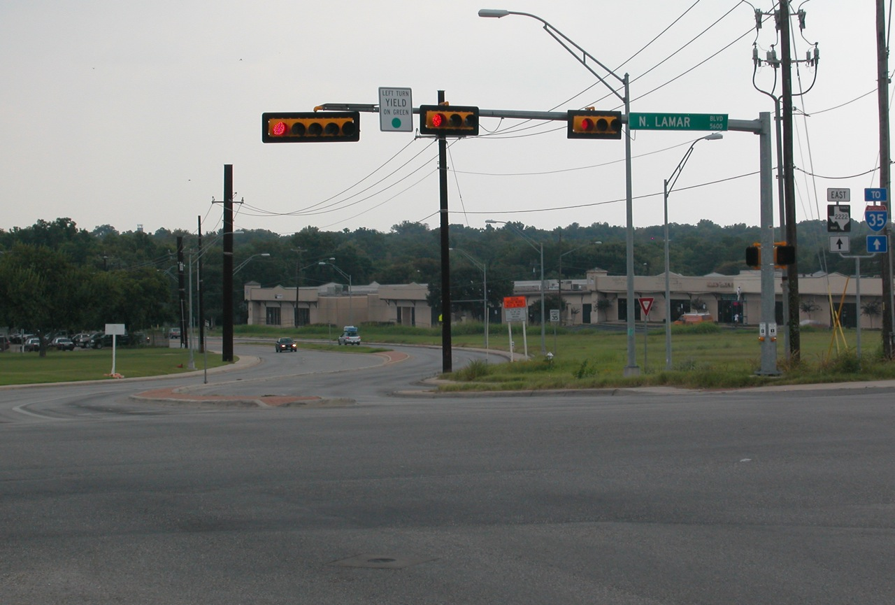 Eastbound Koenig Lane at Lamar Boulevard, Austin, Texas, USA